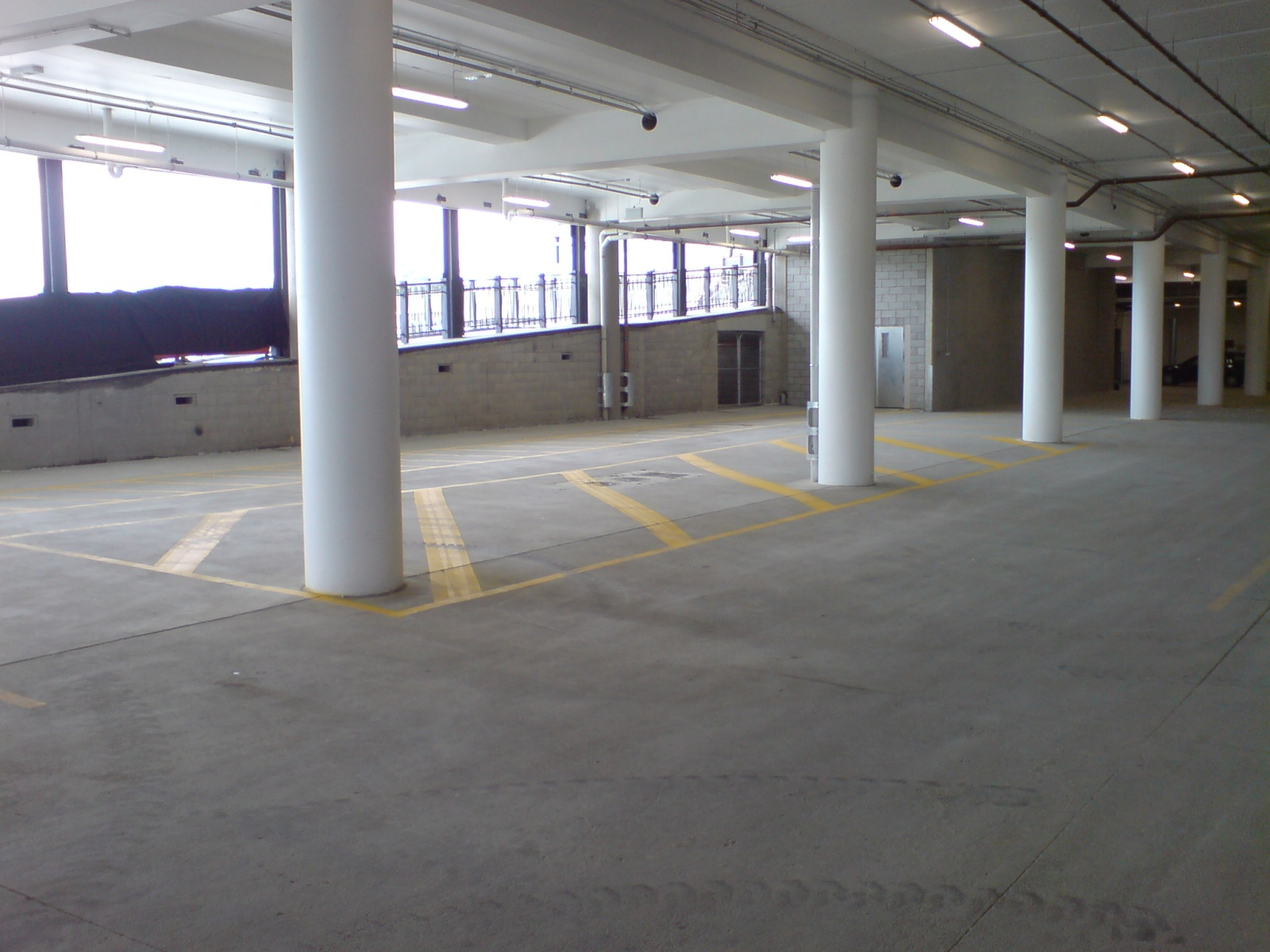 A part of the parking areas (Cinema undercroft) of Westfield Albany. Looking north towards Civic Crescent (not visible).